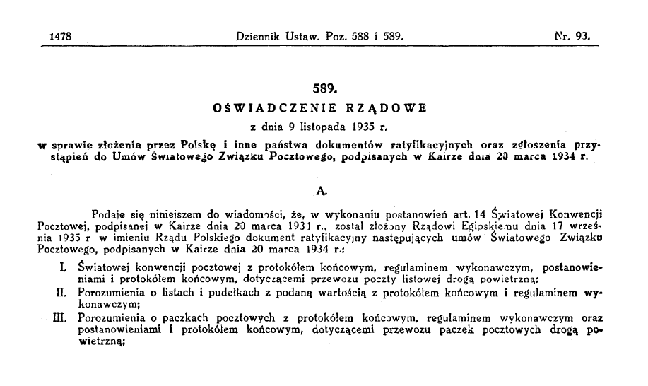 Scan of an official document from 1935 concerning signing the agreement between Poland and Universal Postal Union.